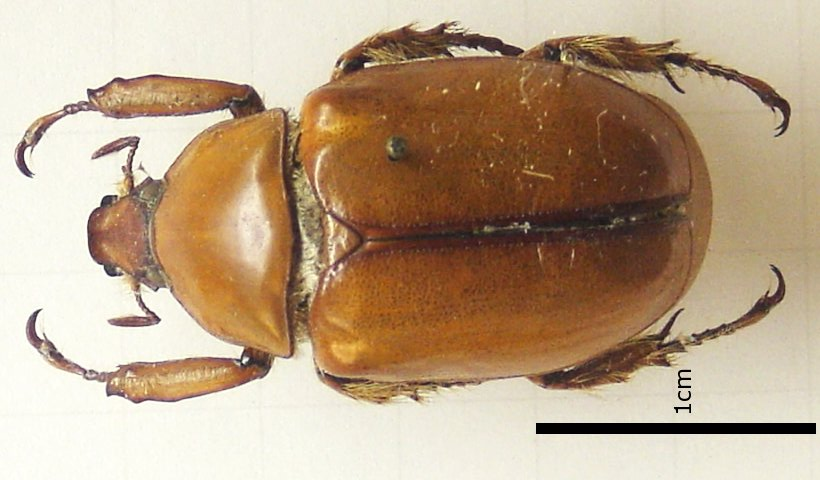 Democrates croesus (Scarabaeidae), mounted specimen from Haiti.